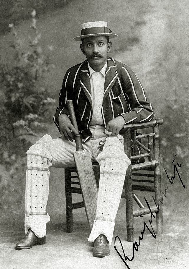 A studio portrait of Kumar Shri Ranjitsinhji, (1872-1933), who became H,H,Shri Sir Ranjitsinhji, Jam Sahib of Nawangar, Kumar Shri Ranjitsinhji played cricket in England for Cambridge University 1893-1894 and for Sussex.